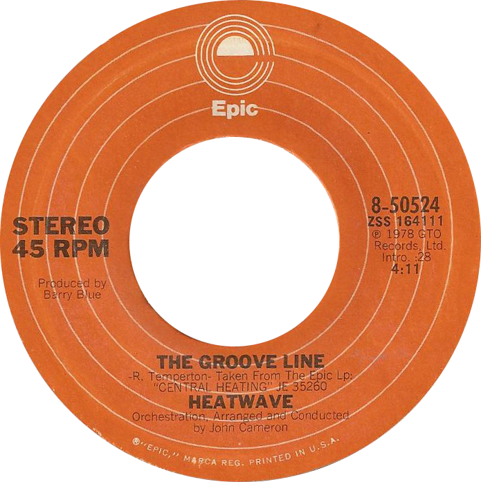 "The Groove Line" by Heatwave; US vinyl single